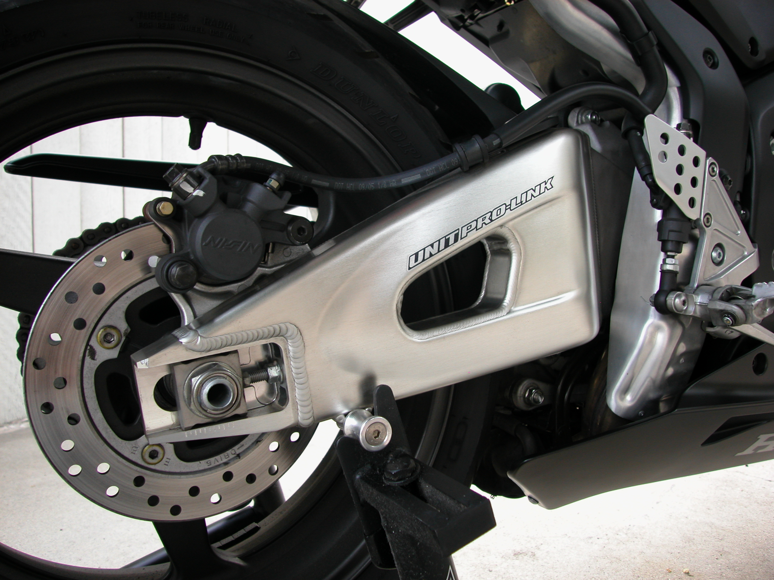 2006 Honda CBR600RR Unit Pro-Link swingarm. Camera used was a Nikon Coolpix 5000.